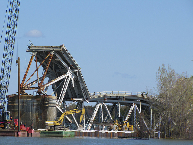 A photograph of a portion of the Champlain Bridge following its December 2009 demolition taken from the temporary ferry between Crown Point, NY and Chimney Point, VT.